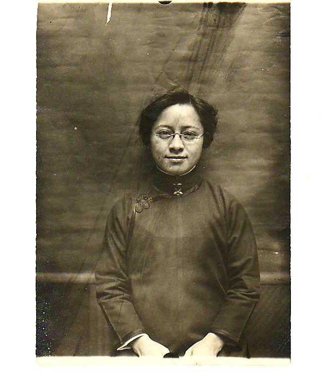 Tye Leung Schulze at age 25, circa Nov 29, 1912